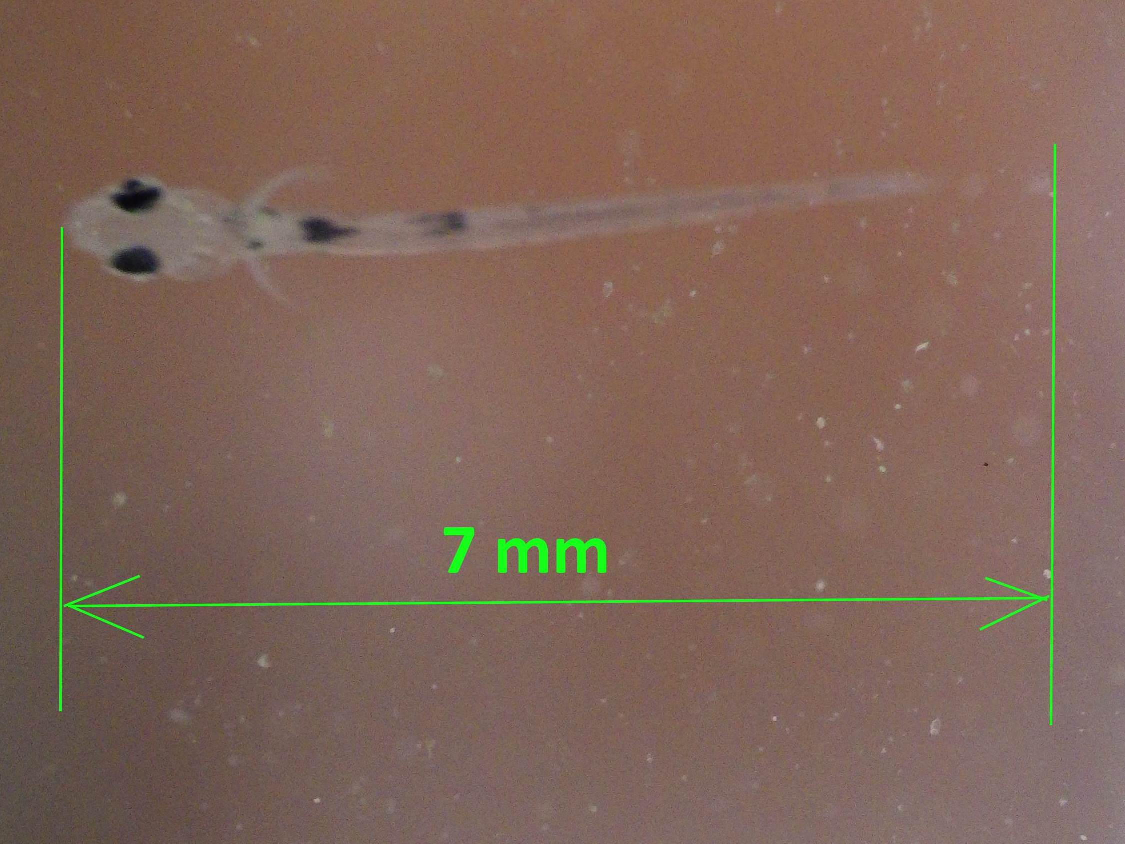 5 days old european perch